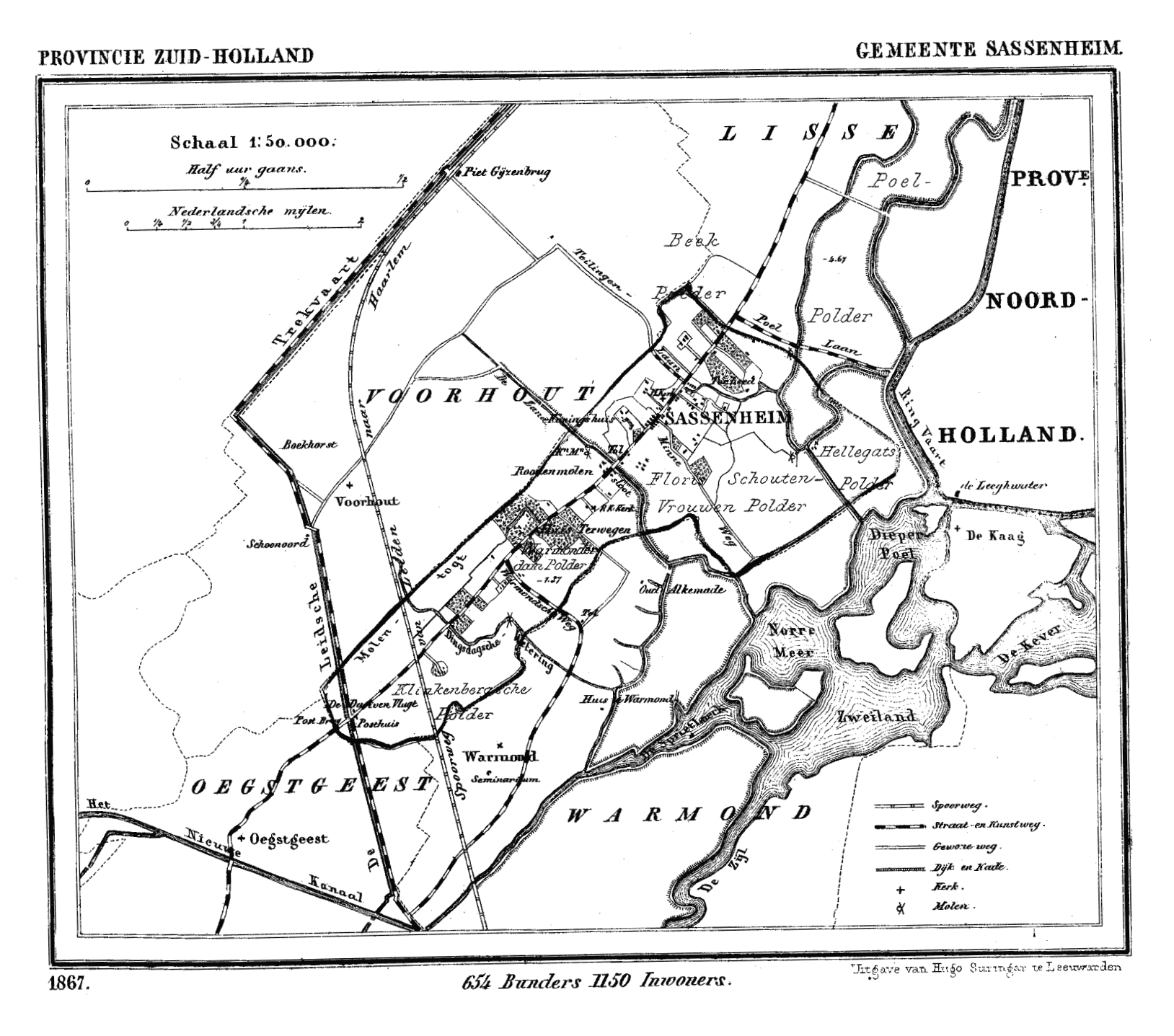 Historic map of Sassenheim (now part of municipality Teylingen), South Holland, the Netherlands